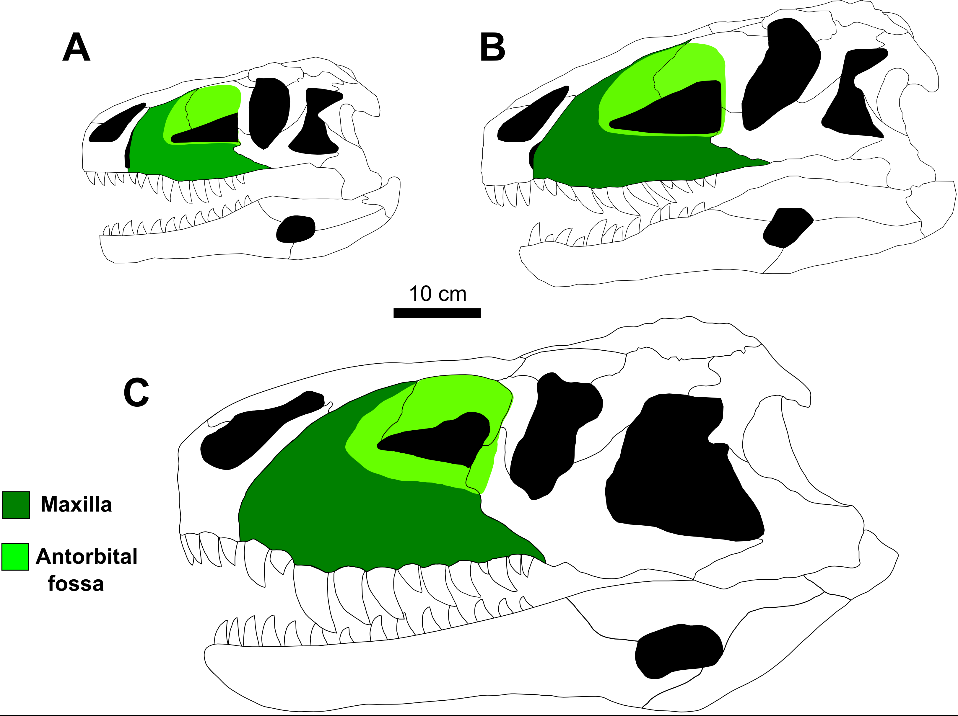 Figure 25: Skull comparasion diagram of the inferred ontogenetic sequence in Prestosuchus chiniquensis. (A) reconstruction of the skull of CPEZ-239b; (B) the skull of UFRGS-PV-0629-T (redrawn based on Liparini (2008)) and (C) UFRGS-PV-0156-T (redrawn based on Barberena (1978) but modified to correct diagenetic distortion and with an open jaw, reconstructed based on the mandible of UFRGS-PV-0629-T). The dimensions of the maxillae and of the anterorbital fossa are highlighted to indicate the apparent changes that occured in these elements as the animal aged and the impact this would have on the size of the sub-narial fenestra.